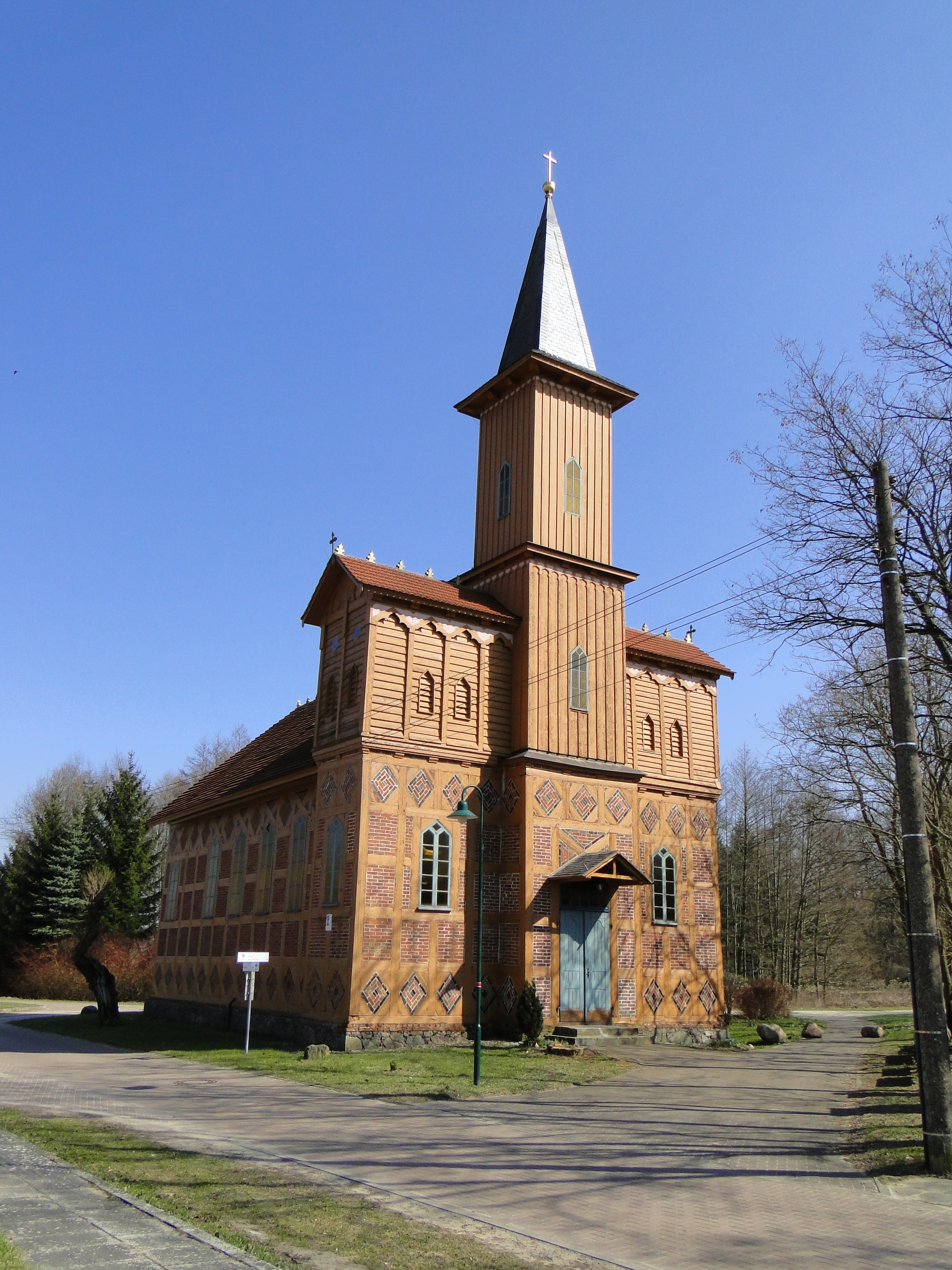 Church in Dabelow, disctrict Mecklenburg-Strelitz, Mecklenburg-Vorpommern, Germany